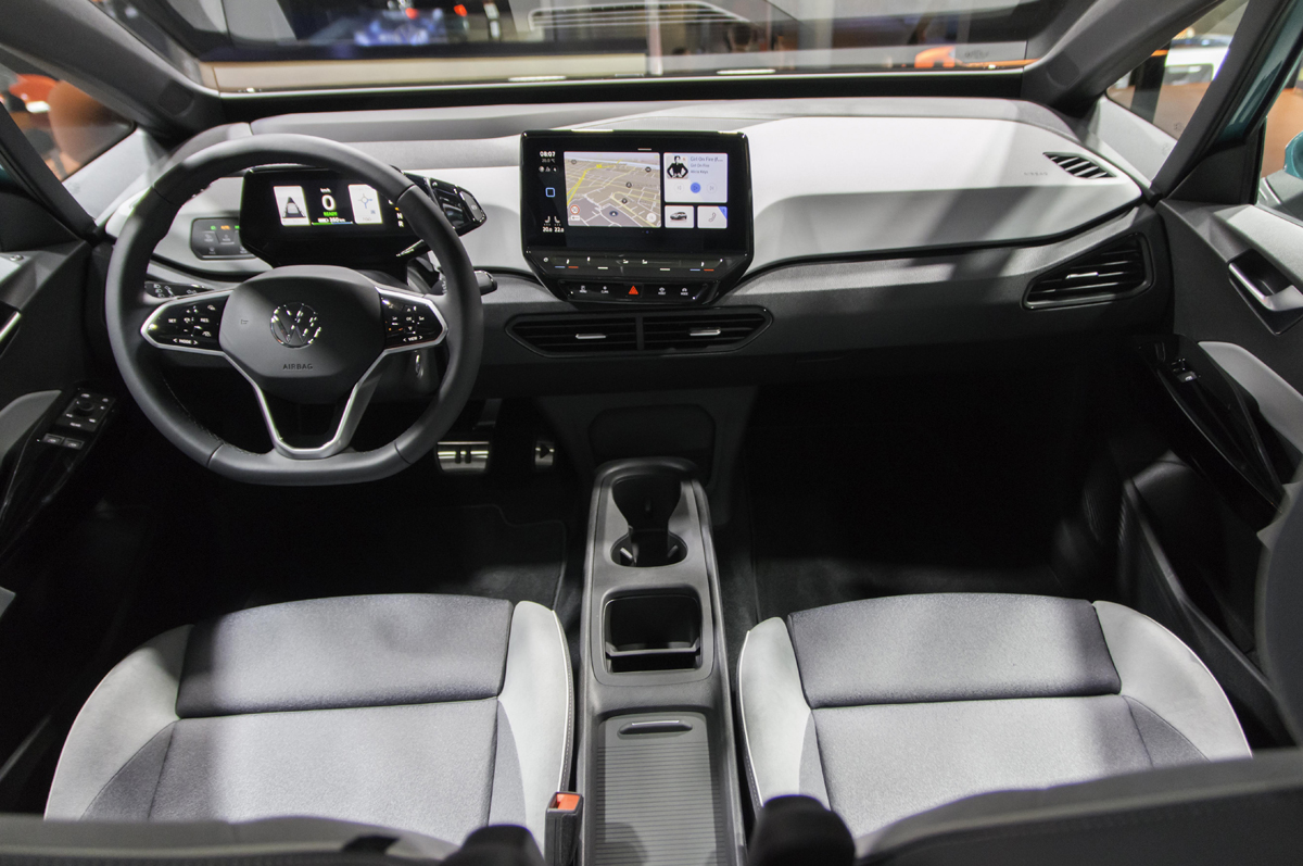 VW ID.3